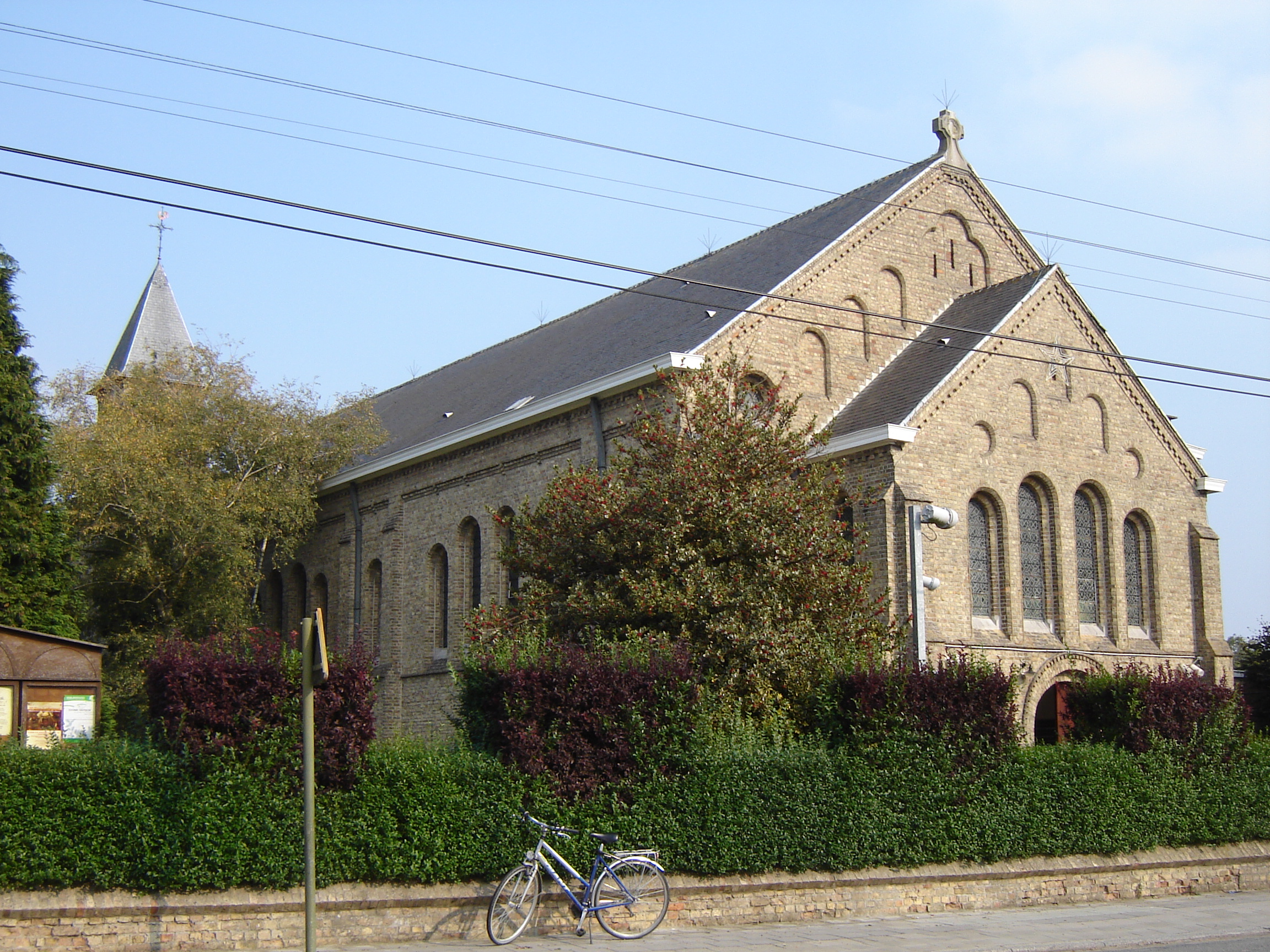 Church of the Visitation of Mary in Ieper. Ieper, West Flanders, Belgium